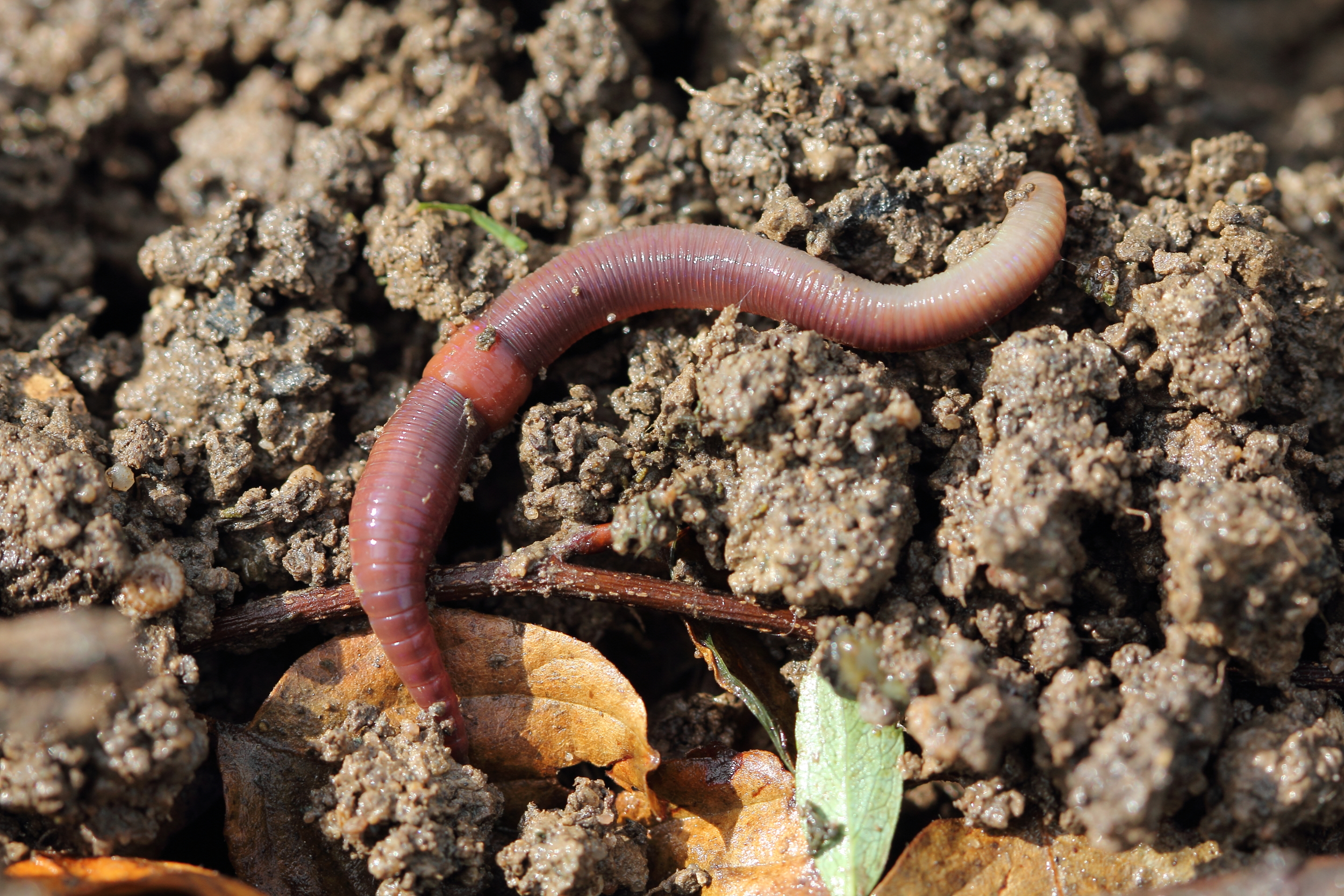 red earthworm, picture taken in soil from organic gardening